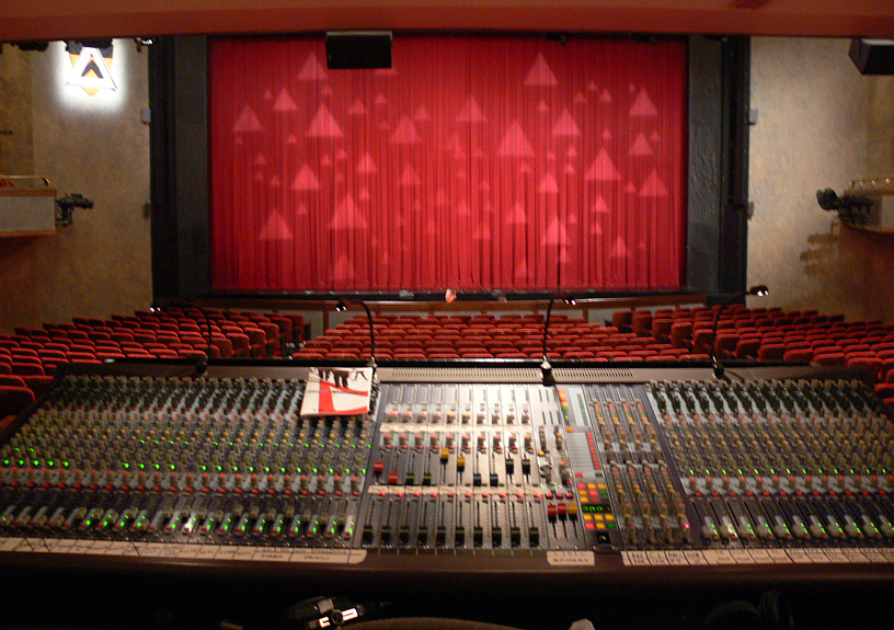 Auditorium and mixing console of McCarter Theatre Princeton, New Jersey